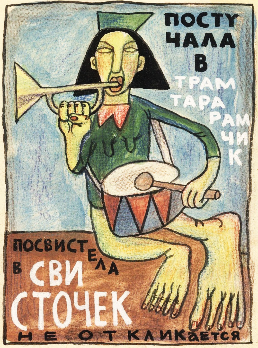 Sculptor G.Stolbchenko-drawG2-1995